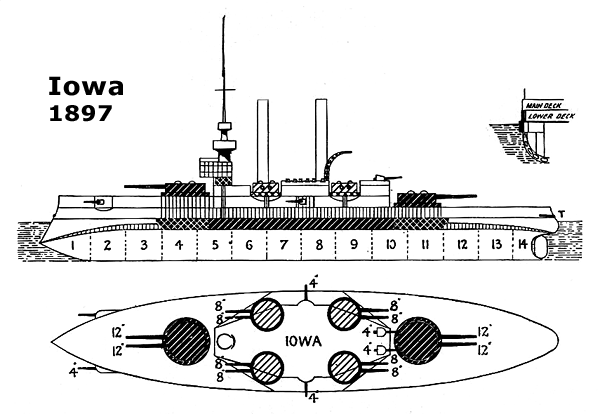 Specifications for the Iowa: Length: 360 feet. Beam: 72 feet. Draft: 28 feet. Displacement: 11,340 tons. Armament: (4) 12" (2x2), (8) 8" (4x2), (6) 4" RF, (20) 6-pdr and (4) 1-pdr guns; (4) 14" Howell torpedo tubes. Protection: Harvey armor: 14"/11" belt; 14" turrets, conn; 12" bulkheads; 8" barbettes; 6" secondary turrets; 5" upper belt; 3" deck. Fuel capacity: 625 tons coal, std; 1780 tons maximum. Propulsion: (12) cylindrical coal-fired boilers; (2) sets inverted vertical triple expansion engines, 11,000 HP; twin screw. Maximum speed: 17.5 kts. Crew: 600 officers and men. Source: [1]